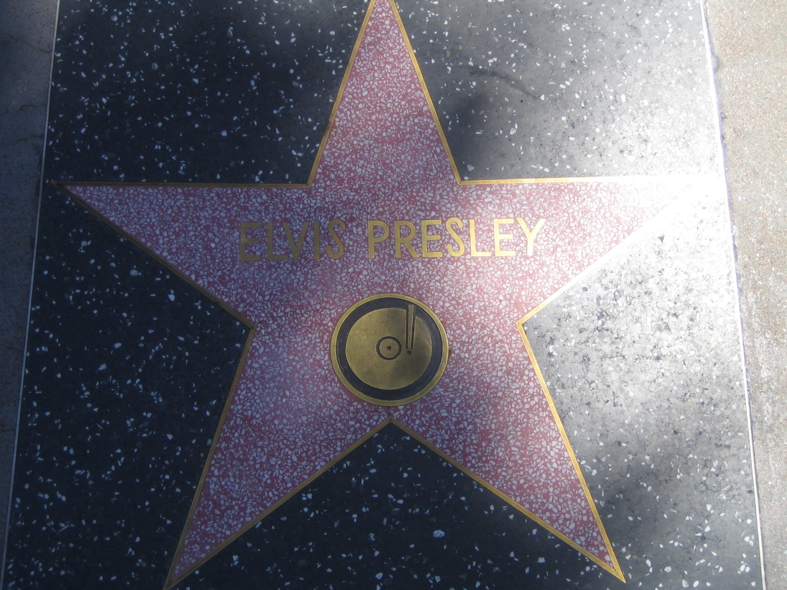 Elvis Presley's star on Hollywood Walk of Fame